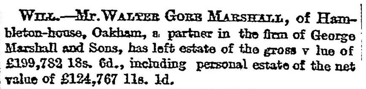 Funeral notice of Walter Gore Marshall, 1899